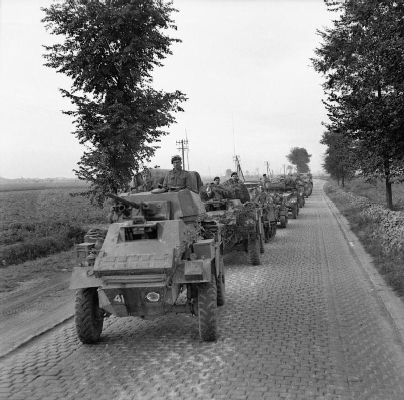 The British Army in North-west Europe 1944-45 A Humber Mk IV armoured car leads a column of other reconnaissance vehicles of 15th (Scottish) Division along a road towards Lille, 5 September 1944.